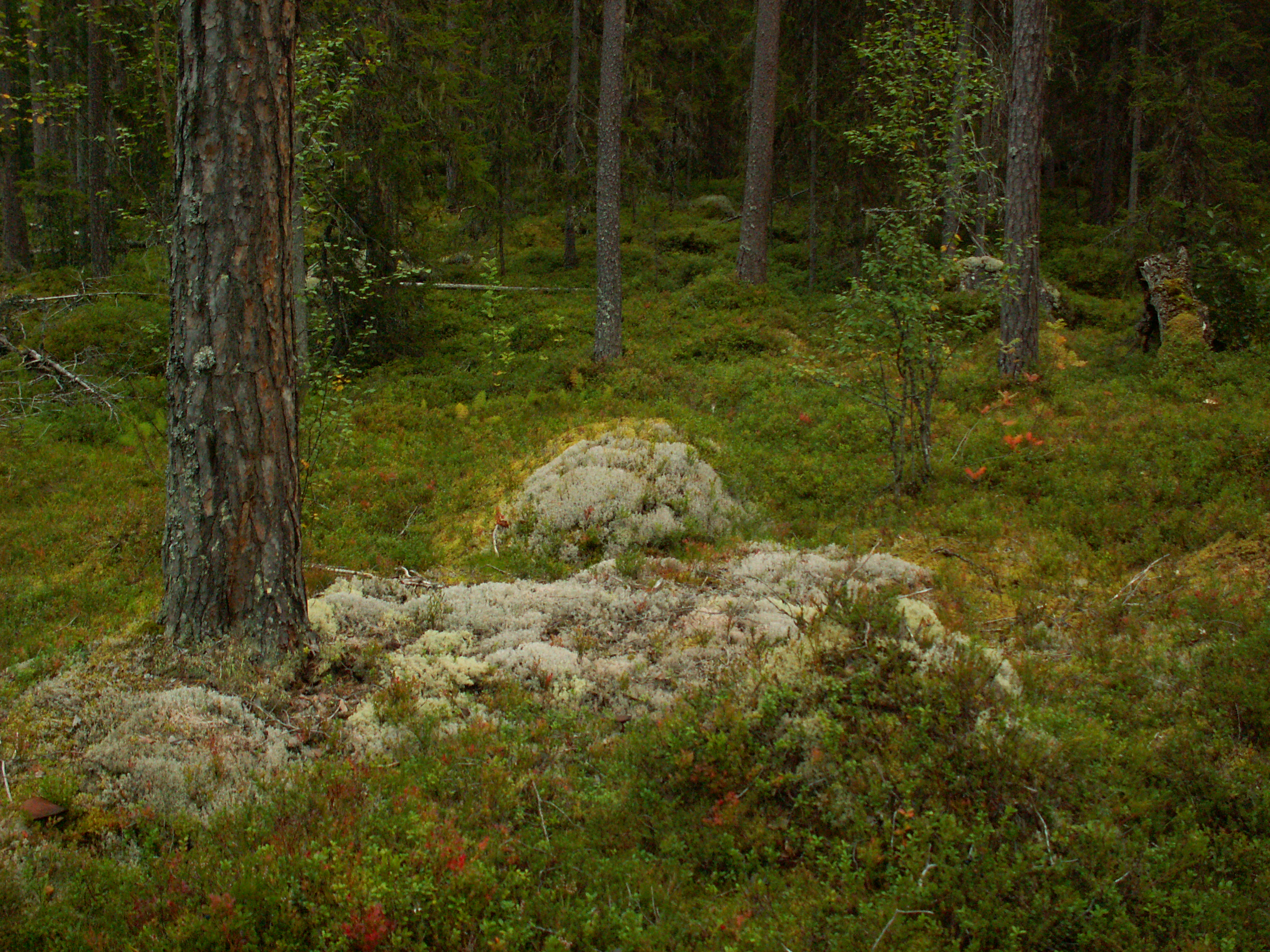 Forest in Hamra national park, Sweden